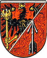 Wappen von Gumbinnen